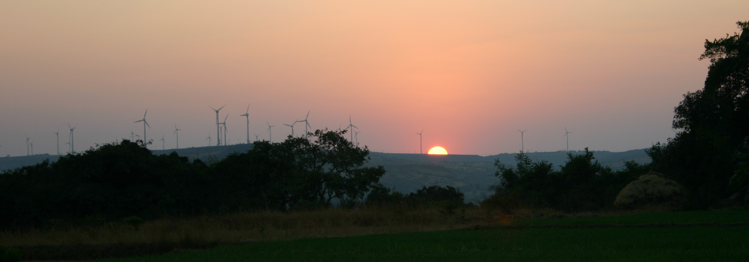 Chalkewadi Windmill & Sunset